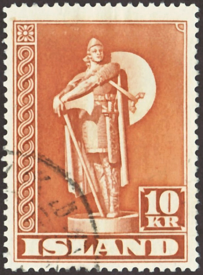 Stamp of Iceland; 1945; definitive stamp of the issue "Icelandic motives"; Thórfinn Karlsefni monument; postmarked Stamp: Michel: No. 240A; Yvert & Tellier: No. 188; AFA: No. 241; Scott: No. 231 Color: orange brown Watermark: none Nominal value: 10 KR (Krona) Postage validity: from 26 March 1945 until 31 December 1958 Stamp picture size: 23.5 x 32.5 mm